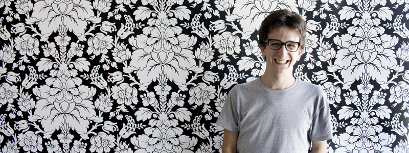 Paul Rust